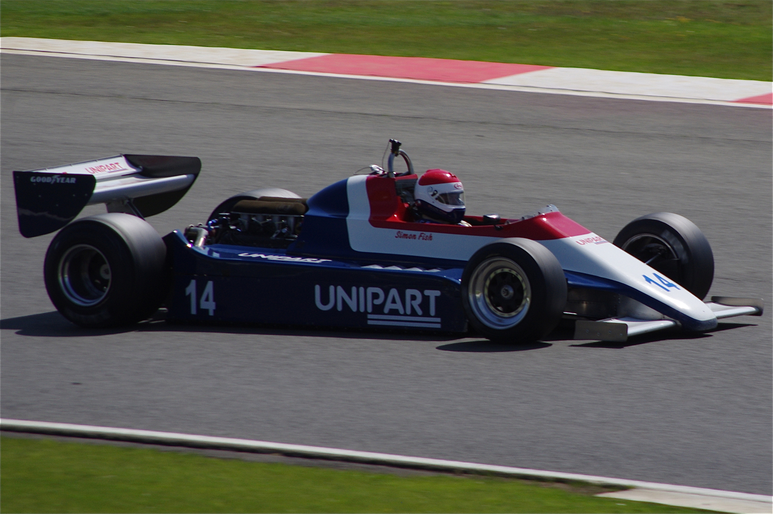 Silverstone Classic, 2012